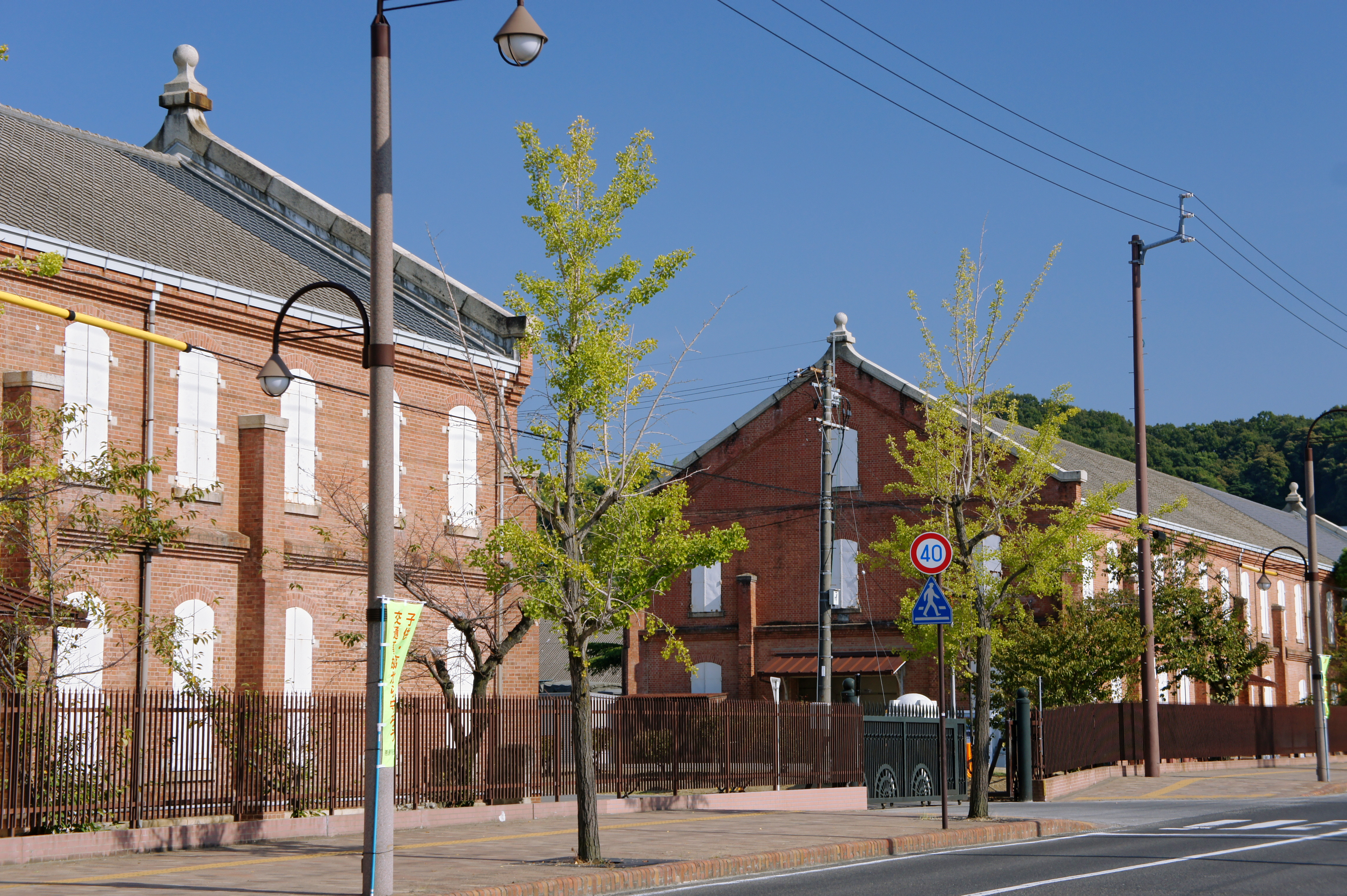 Former armory of JGSDF_Camp_Zentsuji in Zentsuji, Kagawa prefecture, Japan.